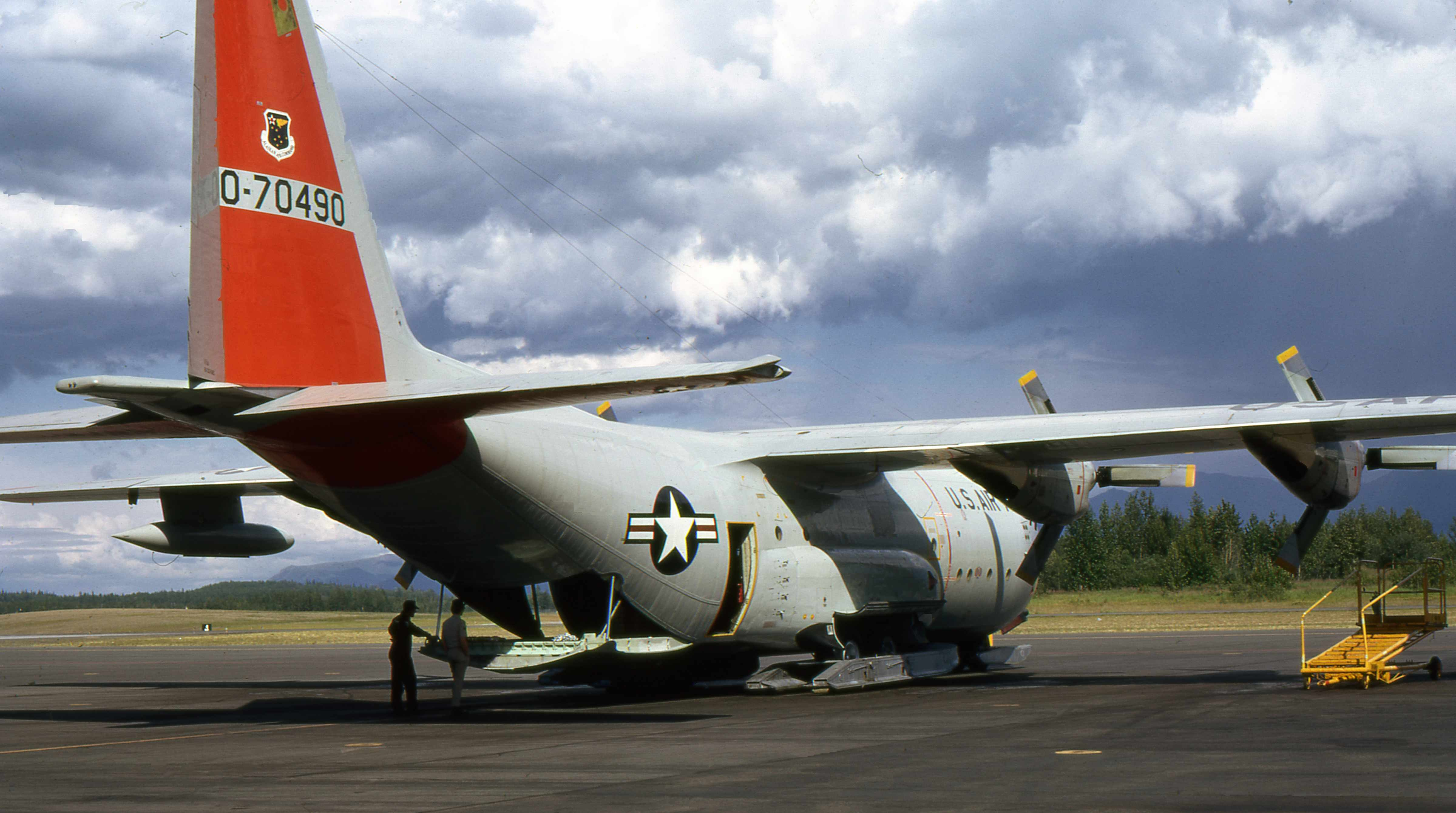 Elmendorf Air Force Base, a LC-130D Hercules belonging to the 71st Aerospace Rescue and Recovery Squadron equipped with ski, on the base apron in 1972.